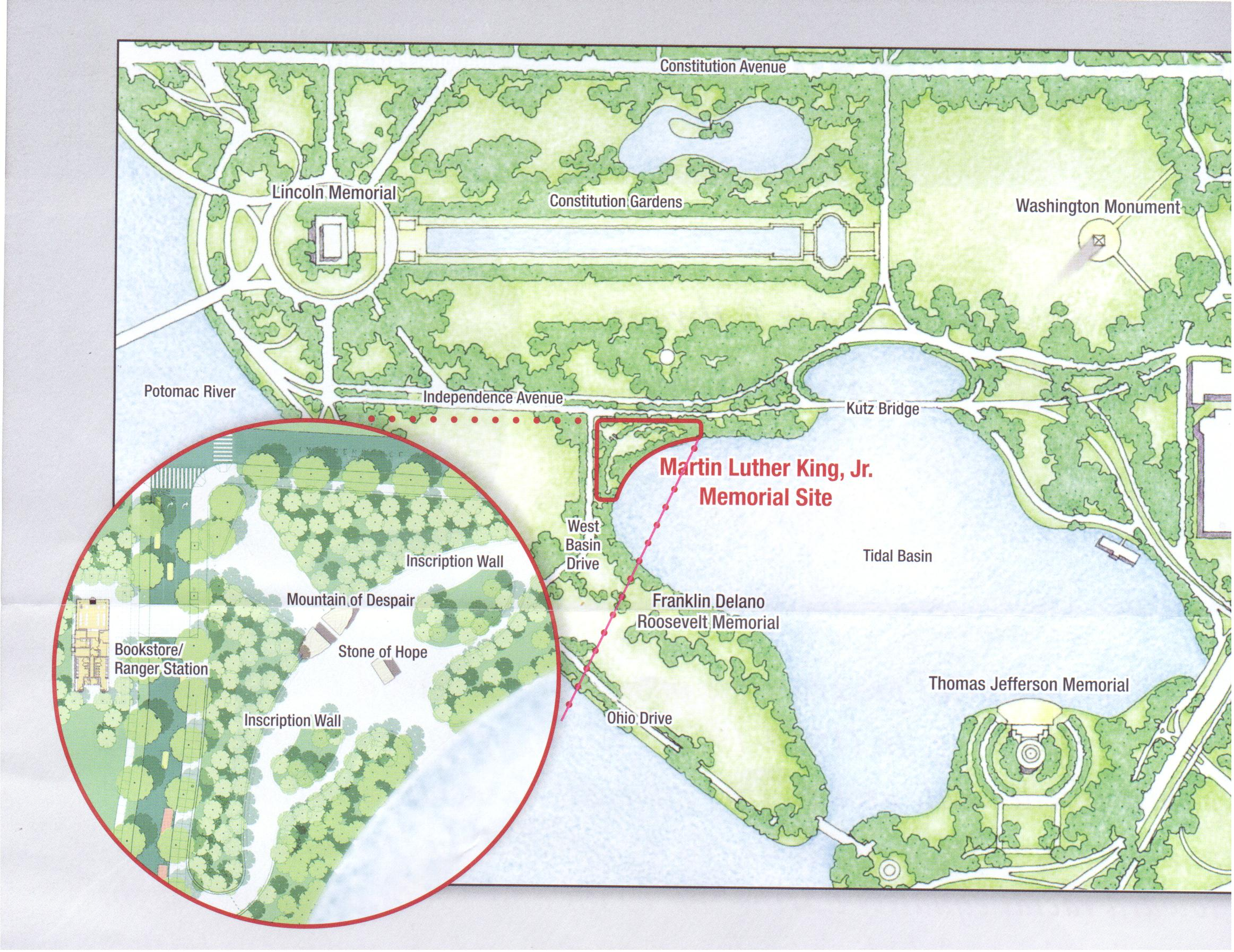 Map and design plan of the Martin Luther King, Jr. National Memorial — and of West Potomac Park, in Washington, D.C. It is set on the Tidal Basin, and shows the other monuments and landmarks in the West Potomac Park off the National Mall.